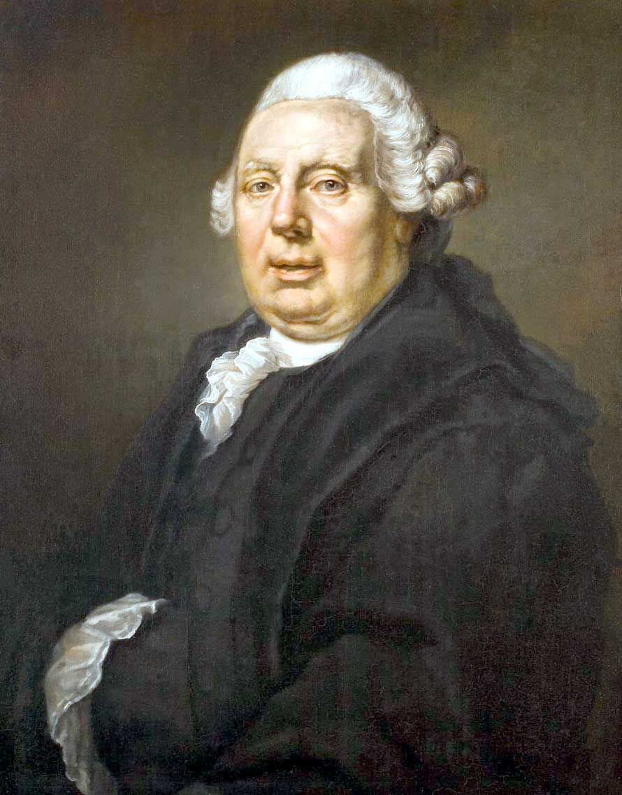 David Ruhnken (1685-1766) German philologist and librarian